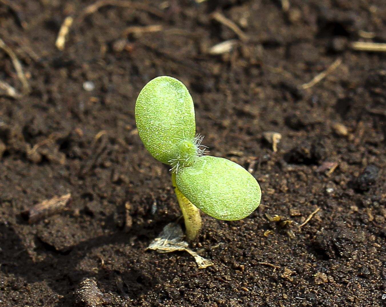 Oytropis dinarica ssp. dinarica var. macrocarpa leg. P.Cikovac